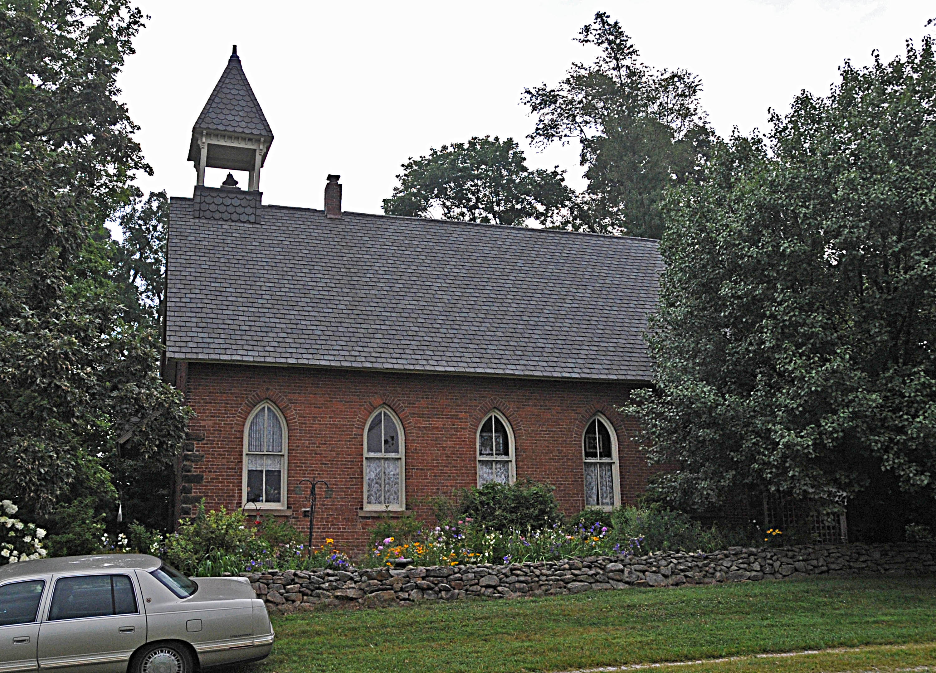 Built in 1880 as a one-room school in Victorian Gothic style. The school was closed in 1938 and now appears to be a private residence.